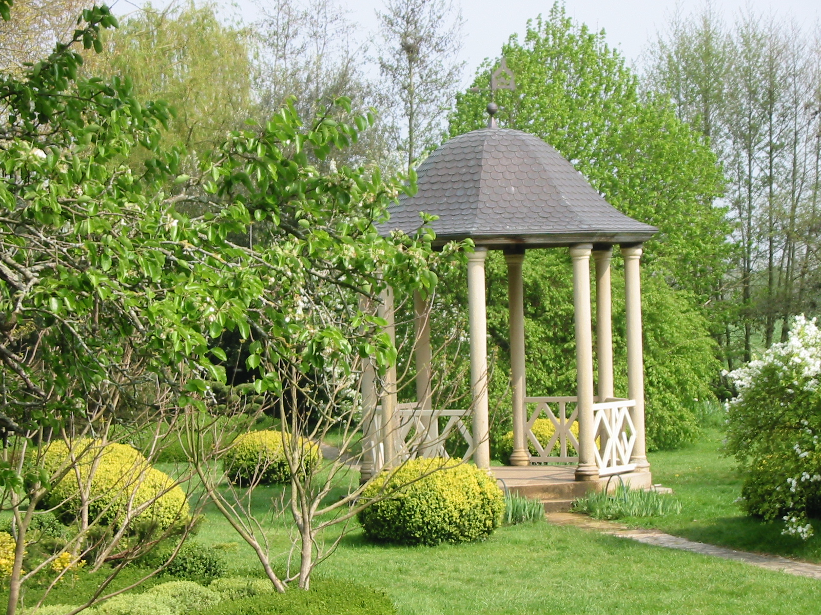 Kiosk named "le temple de la sérénité" in garden of the castle of Vendeuvre (France, Normandy)